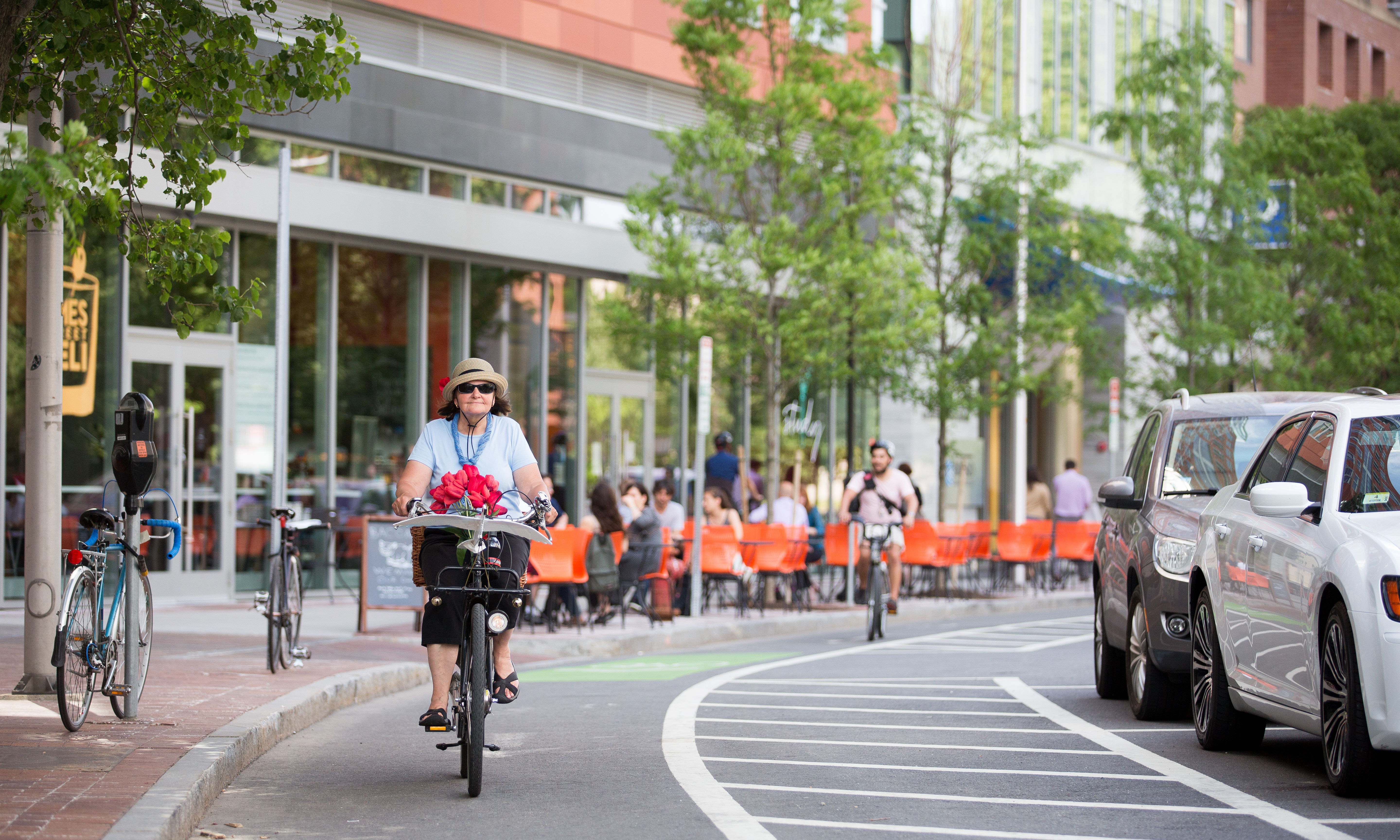 Parking-protected bike lane in Cambridge, Massachusetts.